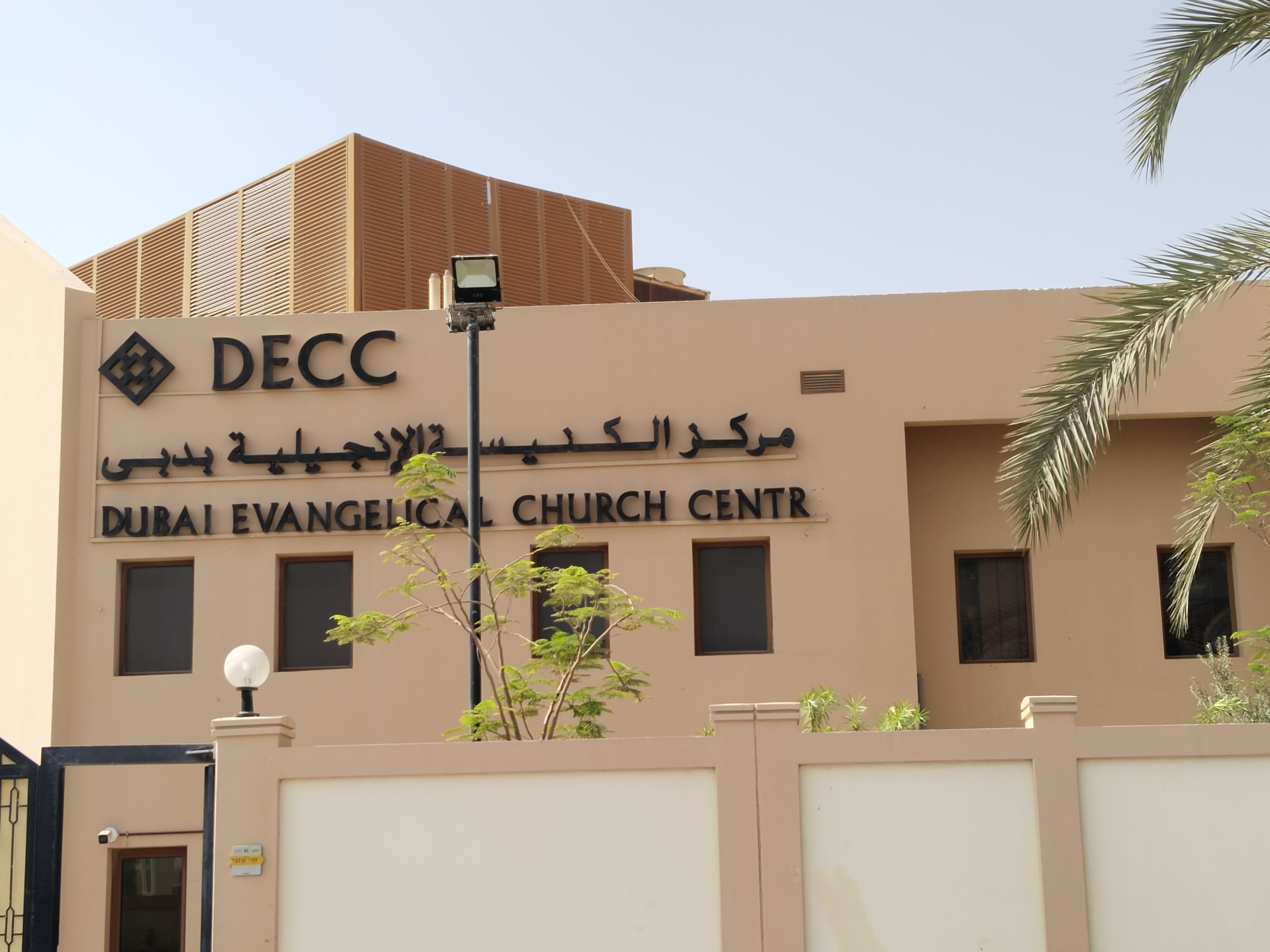 United Christian Church of Dubai building, aka Dubai Evangelical Church Centre.